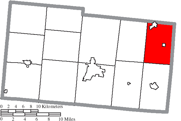 Map of the municipal and township boundaries of Champaign County, Ohio, United States, as of the 2000 census, with the location of Rush Township highlighted. Township borders are shown only in unincorporated areas in order to differentiate incorporated and unincorporated areas more clearly.